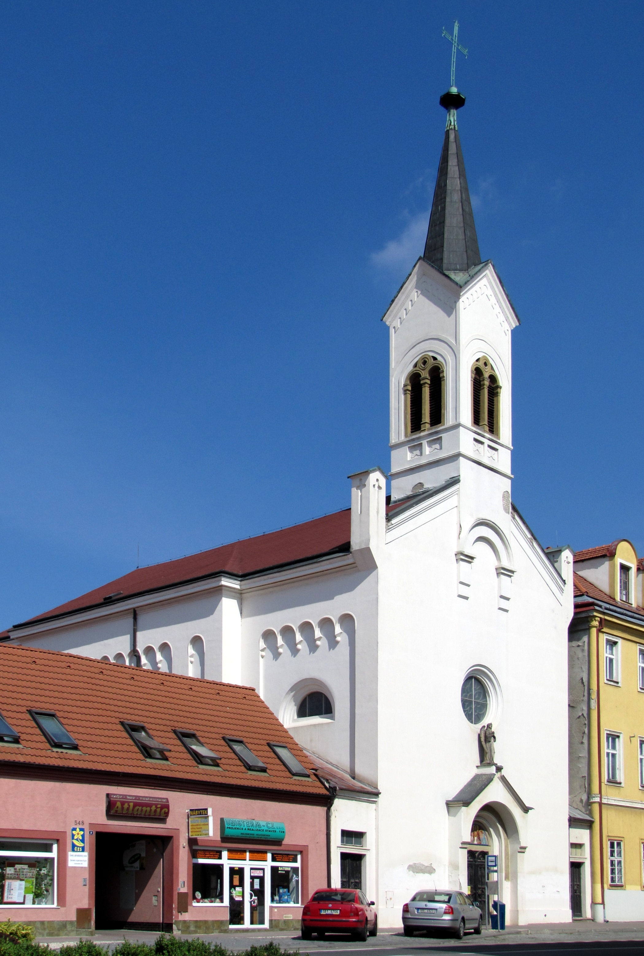 Kaple sv. Josefa Kalasanského v Kyjově